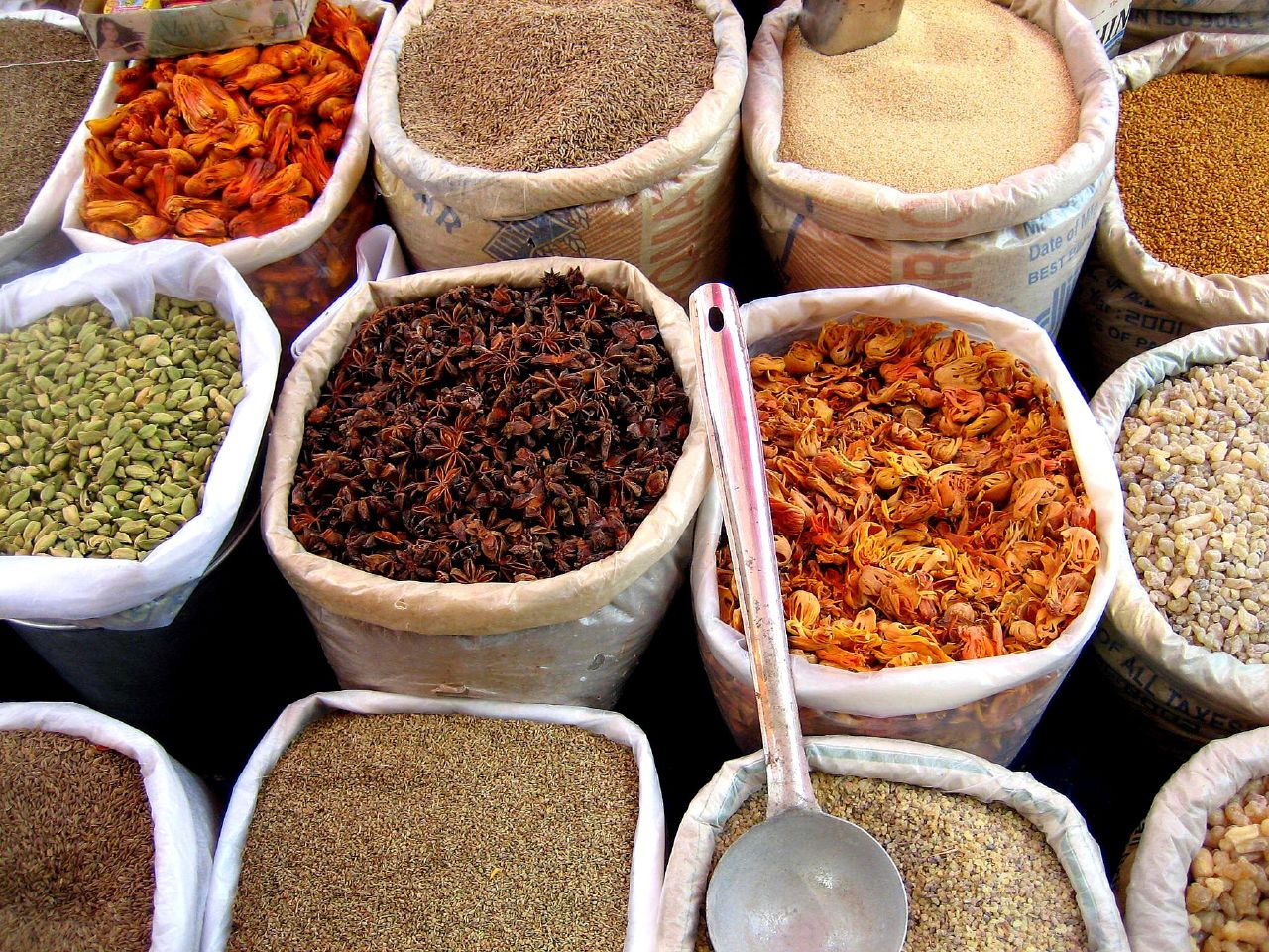 Spices in Mapusa Market, Goa, India.